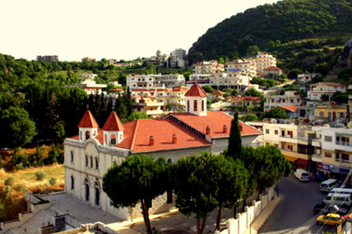 Holy Trinity Armenian Evangelical church in Kessab, Syria, with the Gala district on the right background.